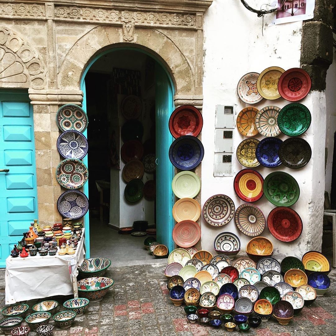 Essaouira MDENA This is an image with the theme "Africa on the Move or Transport" from: Morocco